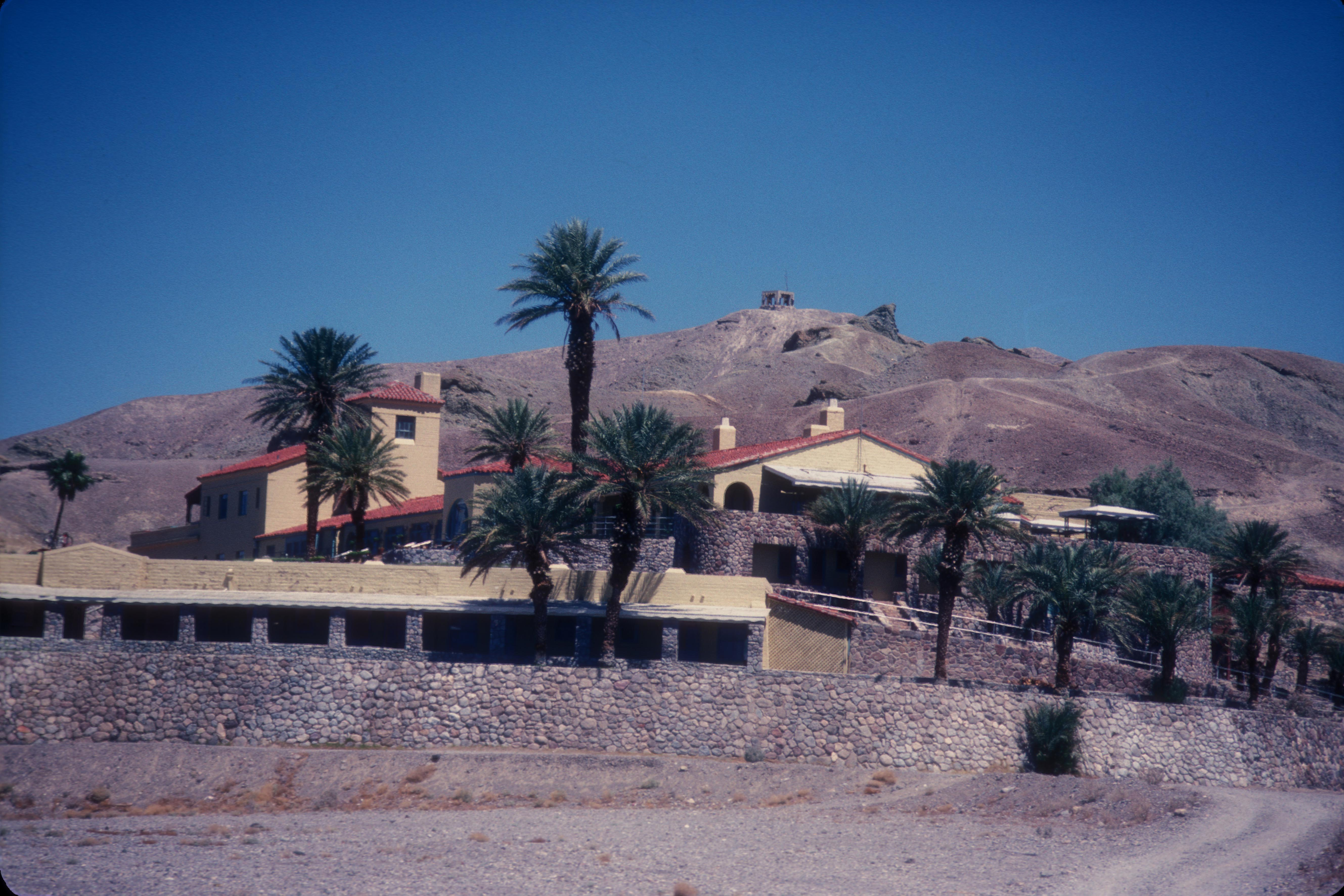 FURNACE CREEK INN - STARTED BACK IN THE 1880'S AS A FOOD SOURCE FOR THE MULE TEAMS HAULING OUT BORAX FROM HARMONY BORAX WORKS